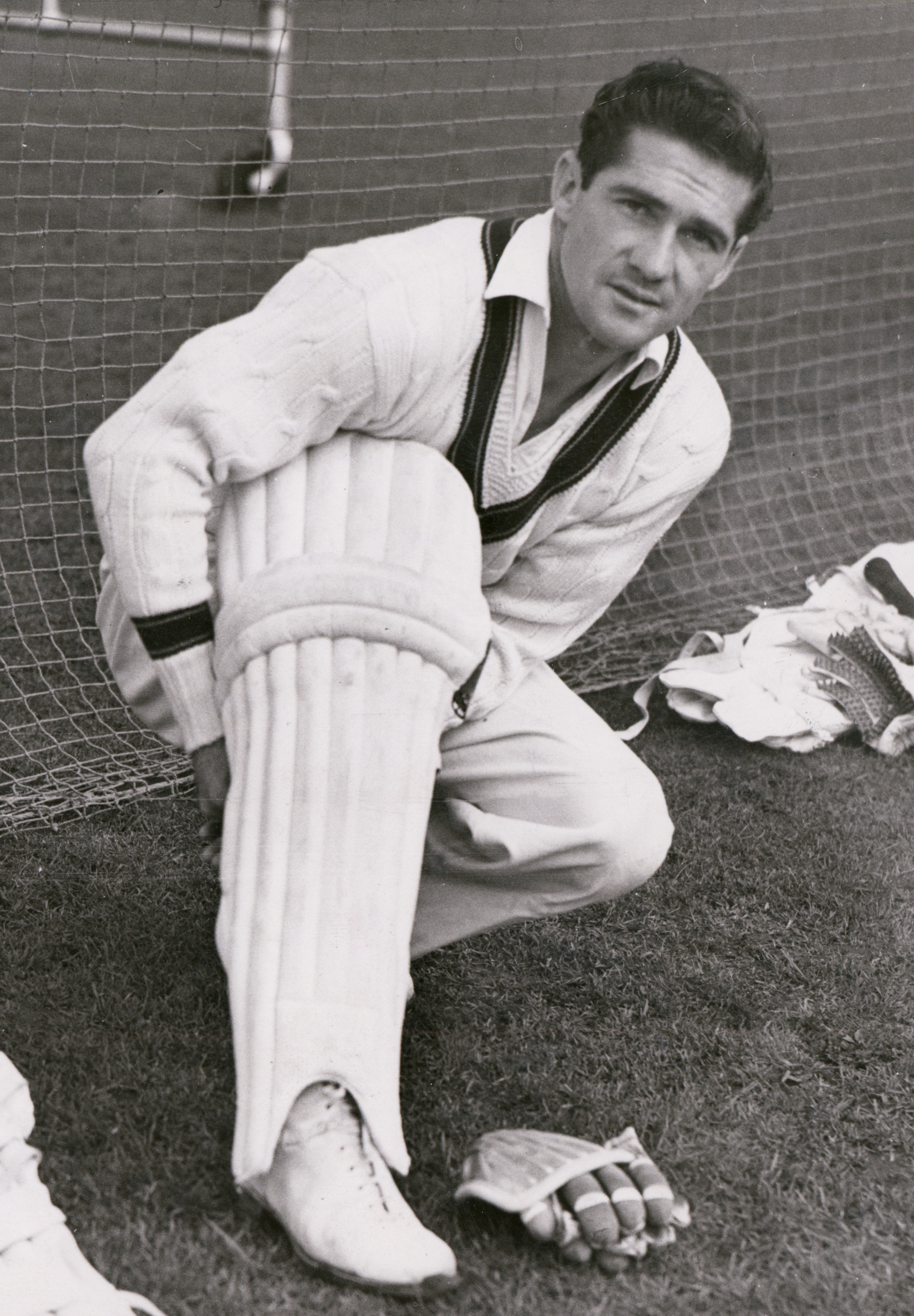 Victorian star batsman Neil Harvey, dons his pads for practice at Lord's